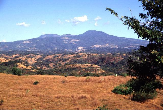 Tecapa volcano in El Salvador